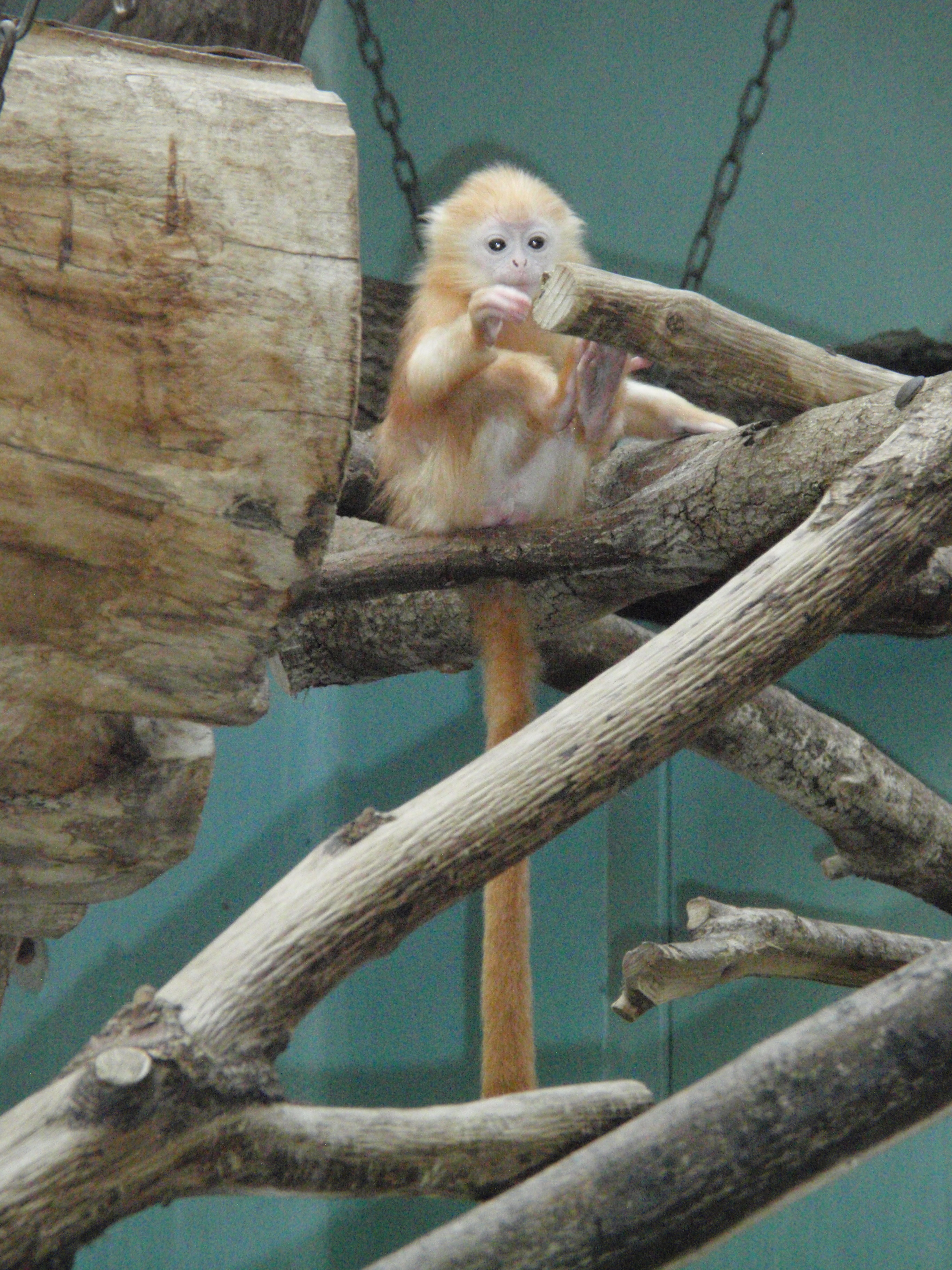 Trachypithecus cristatus